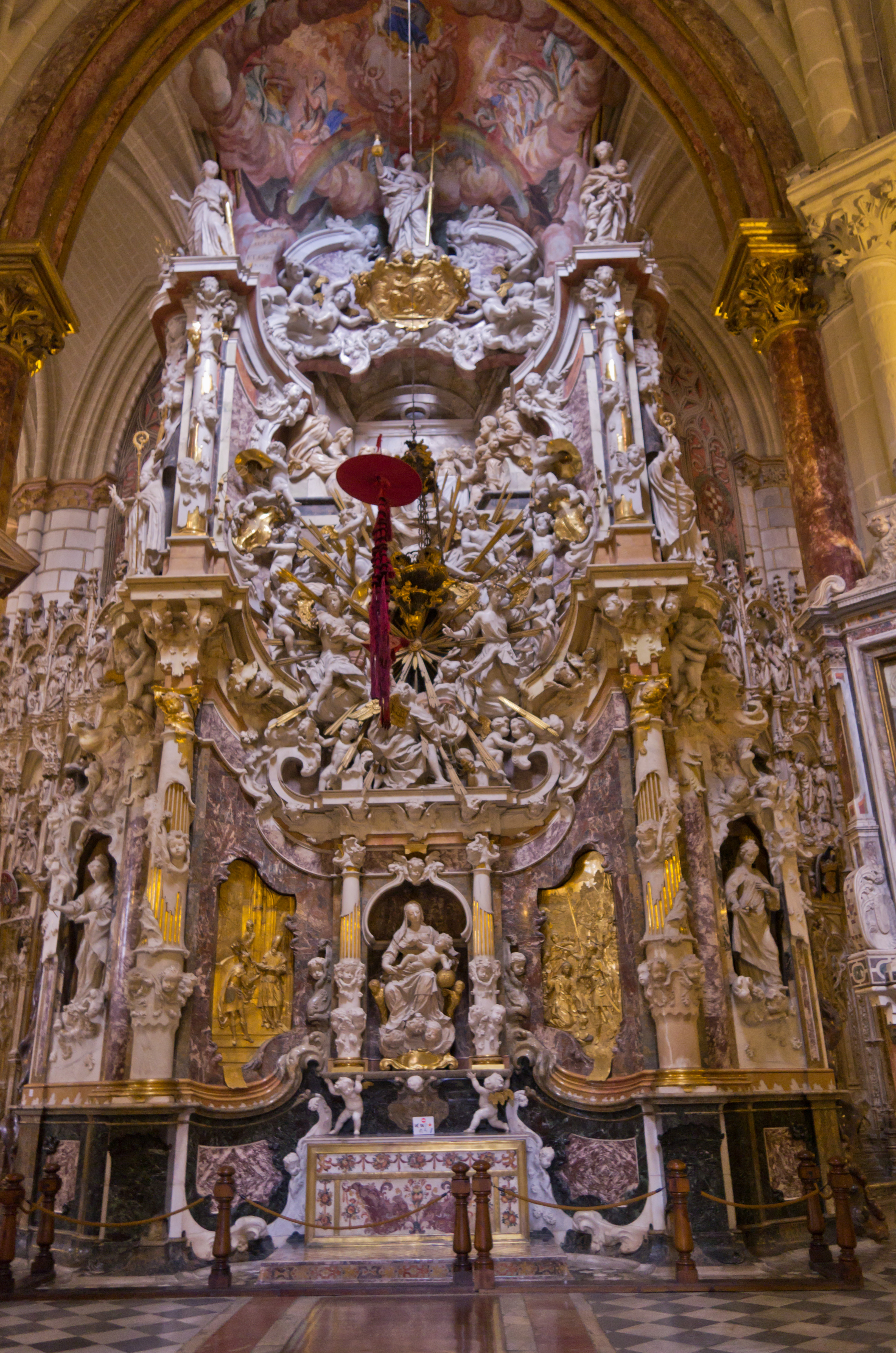 The Transparente of Toledo Cathedral, with a hanging galero and tassels